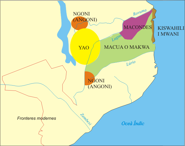 North Mozambique, zone granted to Companhia do Niassa